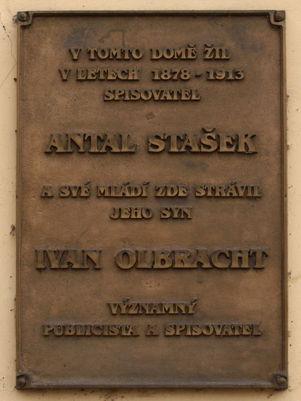 Czech town Semily—local museum, birth house of Czech writer Ivan Olbracht